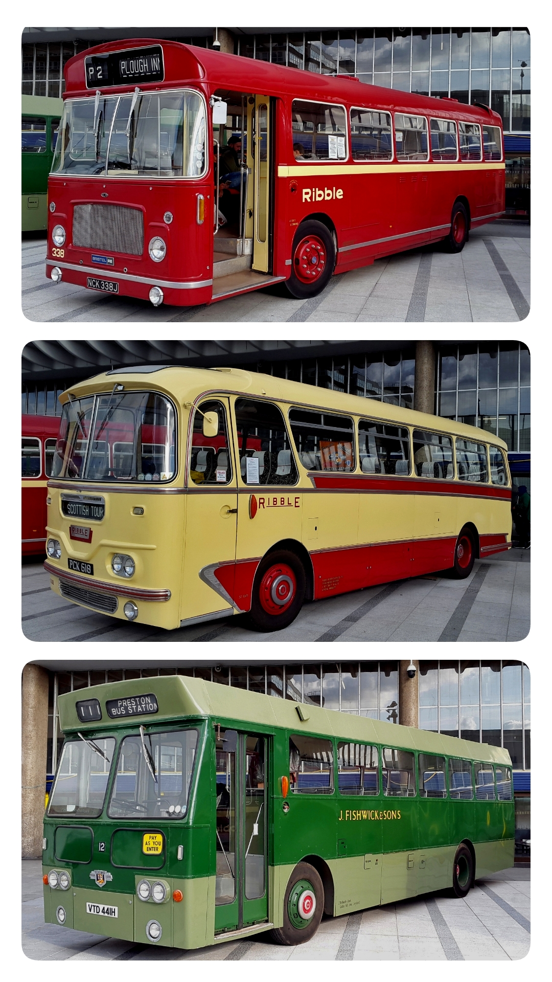 Historic buses on display at the 50th anniversary of the Preston Bus Station, Lancashire.